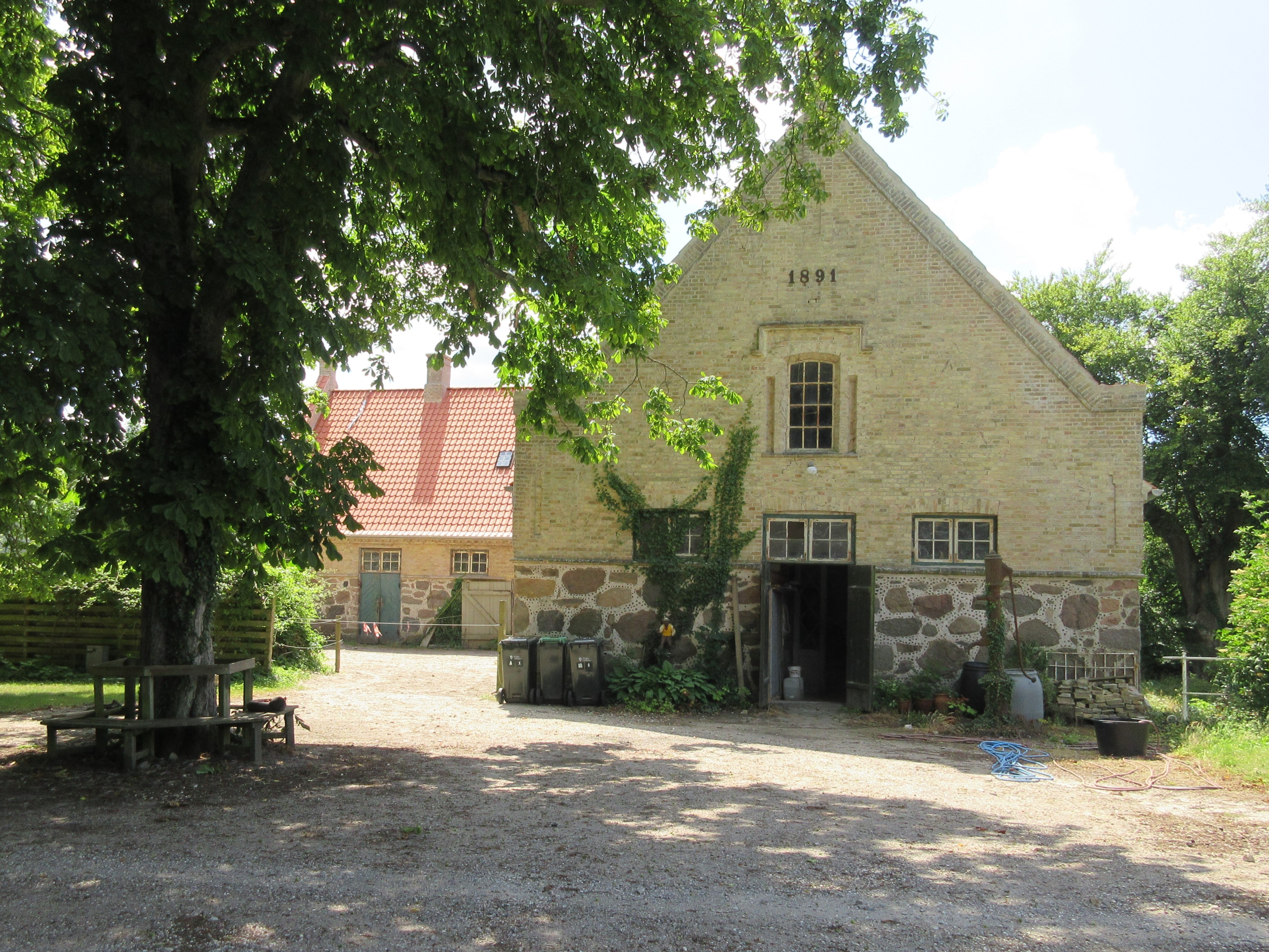 L-shaped former stable at Egholm Castle at Skibby, Denmark. This building and a barn flanks the alley that leads up to the main building.